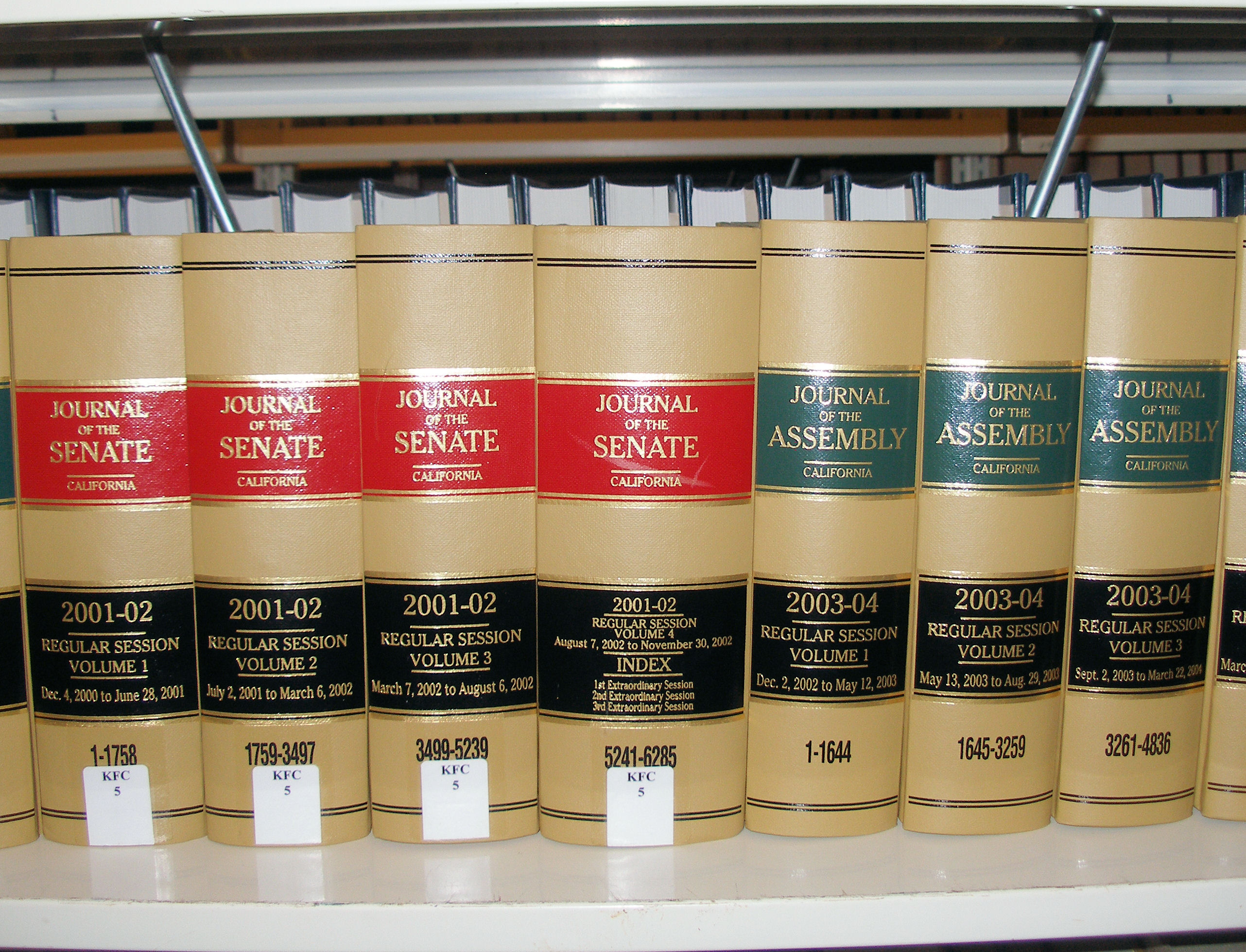 A few volumes of the journals of the two houses of the California State Legislature. The Senate's journal has a red band, while the Assembly's journal has a green band on the spine. Note that these journals normally do not contain transcripts of legislative proceedings. Rather, they merely summarize for each bill, who proposed it, who withdrew it, how it was bounced between various committees and the two houses, and what the votes were on the bill at each stage. Photographed at the law library of the UC Berkeley School of Law on February 13, 2009.